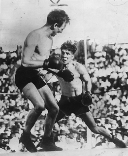 Freddie Welsh (left) vs 'Mexican' Joe Rivers fighting in 1914 at Vernon, California. Both men Lightweight boxers were attempting to increase their claim to fight Lightweight World Champions Willie Ritchie.